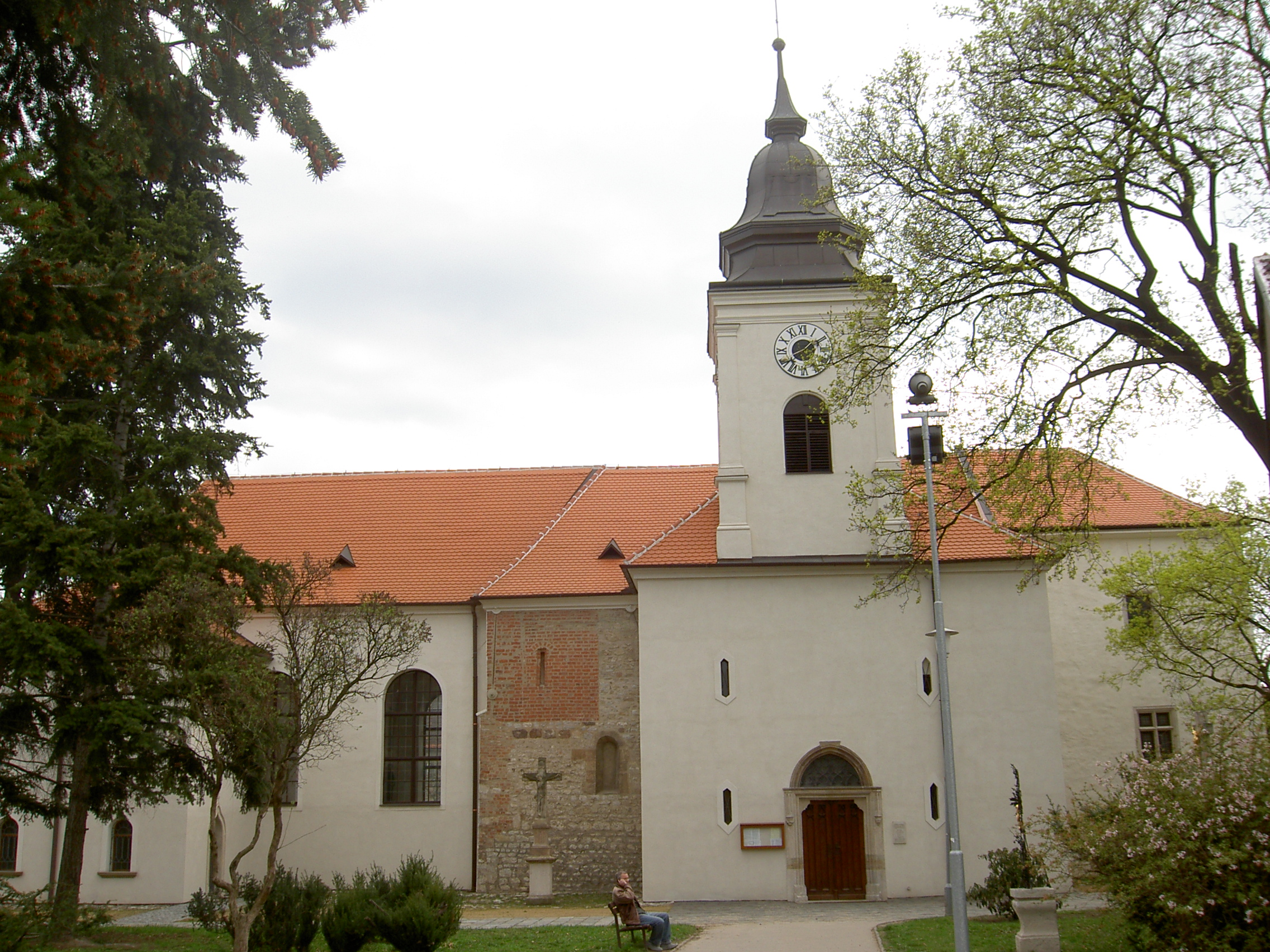 Saint Giles church, Brno-Komárov